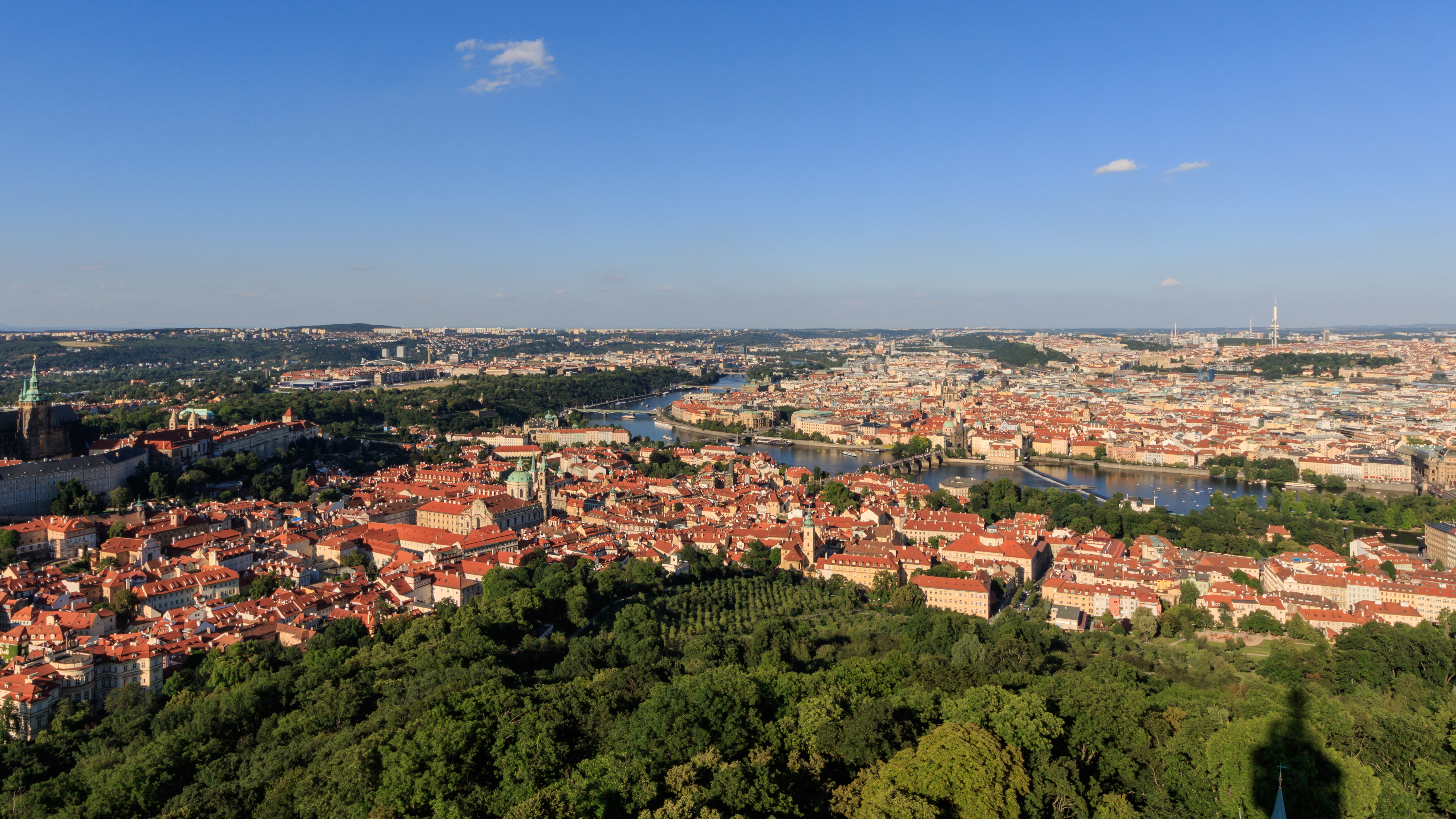 View from Petřín Lookout Tower in Prague (Czech Republic)